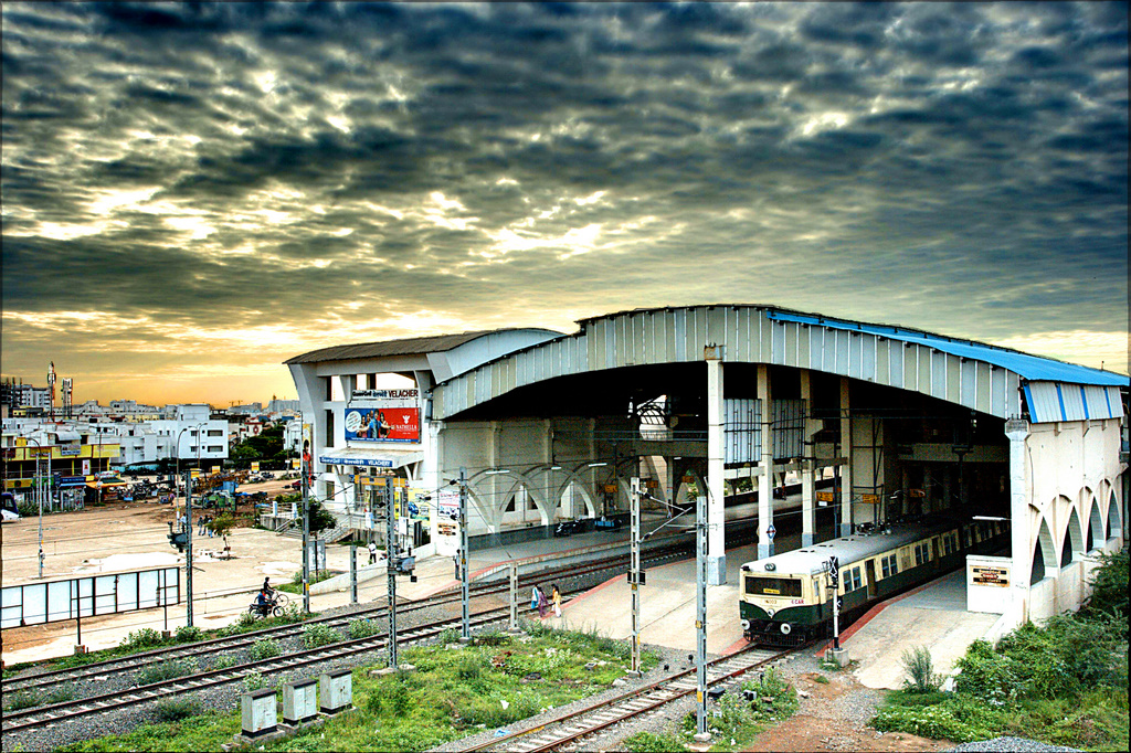 On a cloudy morning